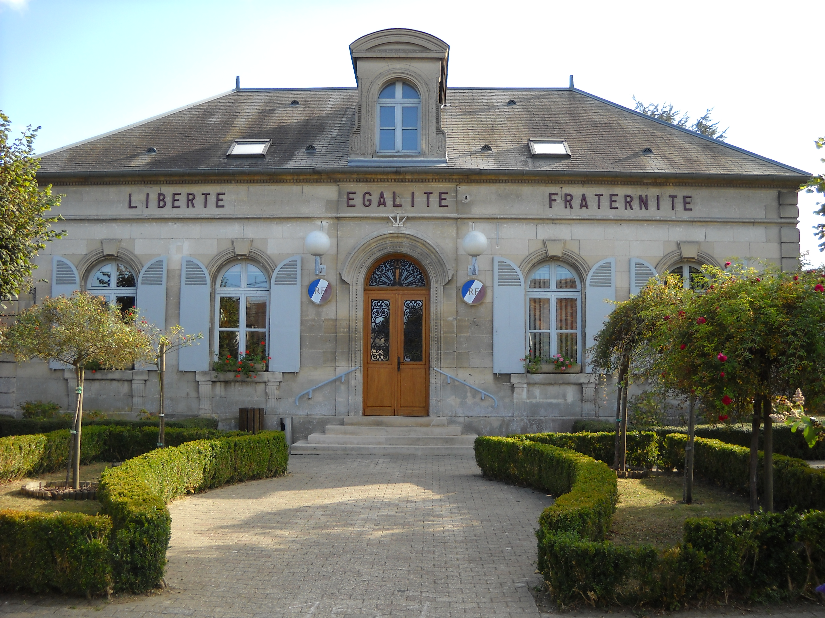 The town hall of Breuil-le-Vert, Oise, France.